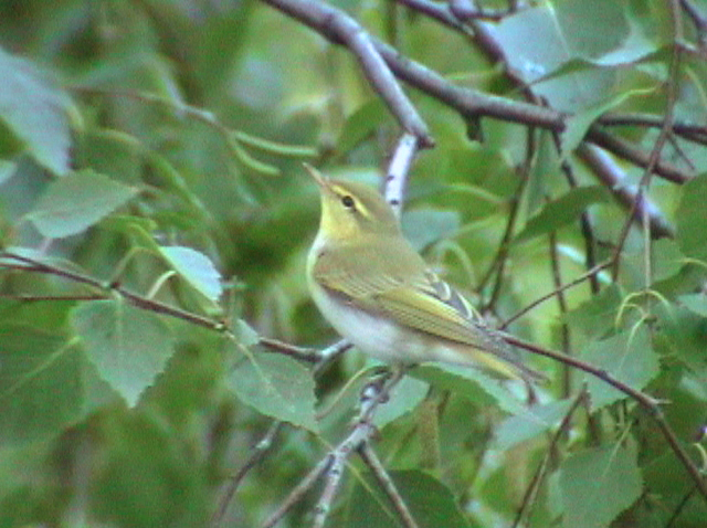 Wood Warbler Phylloscopus sibilatrix, Sofia, Bulgaria